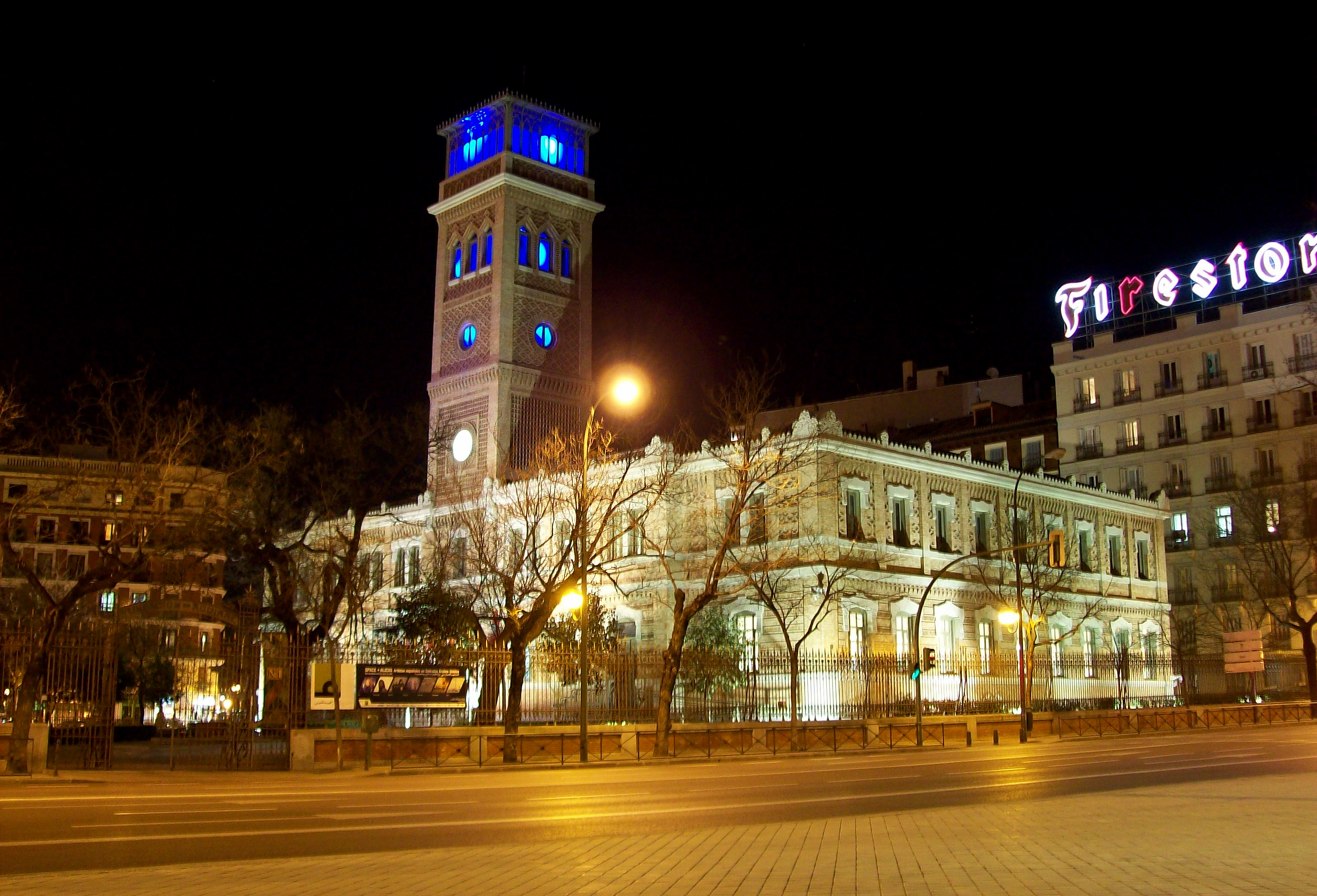 Night view of Casa Árabe ("Arab House") in Madrid (Spain).